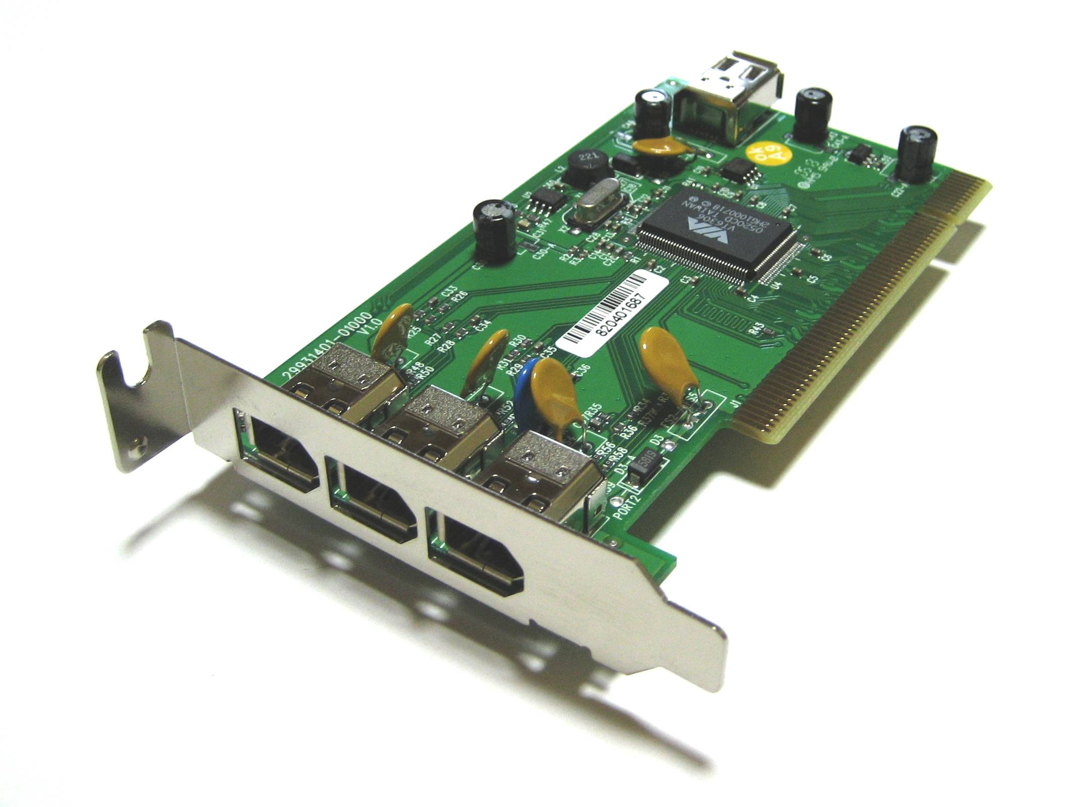 Buffalo IFC-ILP4 is a FireWire (IEEE1394) card. It can install in small form factor computers' low-profile PCI.